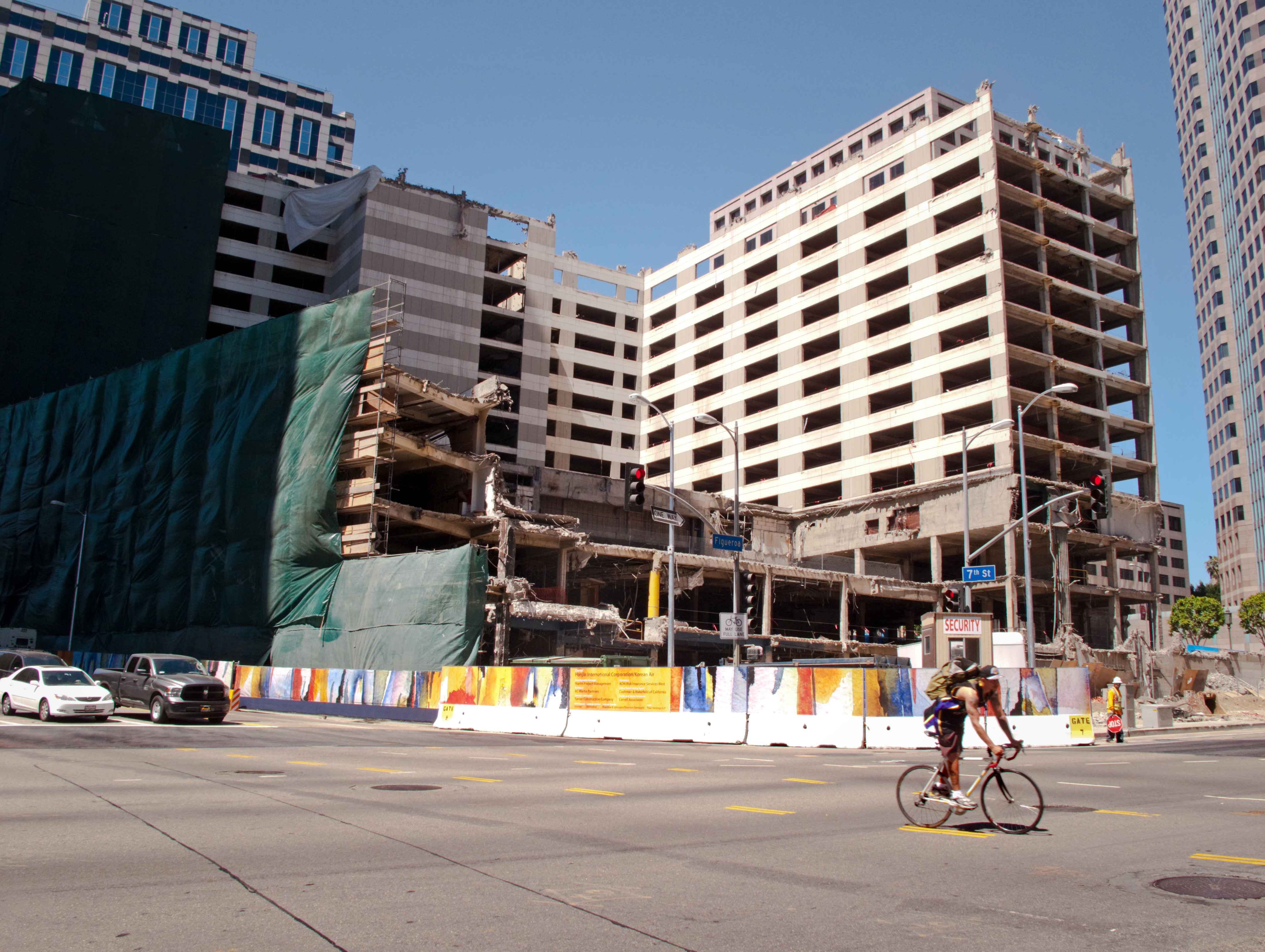 Demolition of the Wilshire Grand Hotel, at 7th and Figueroa Streets, in Downtown Los Angeles. A high-rise is planned for this location.